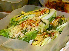 Baek kimchi, literally white kimchi. Cropped version from the original.